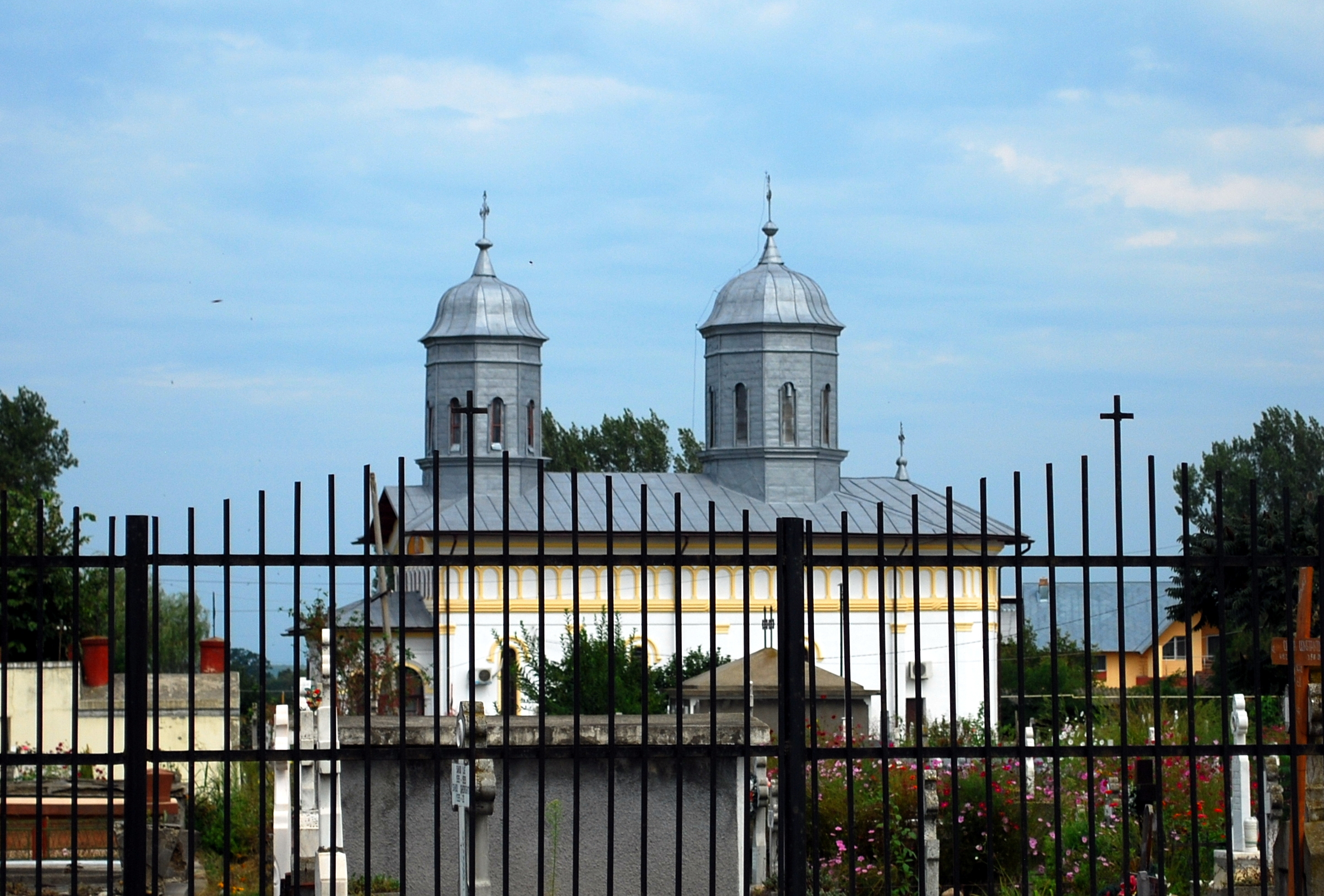 Saint Nicholas' church in Găești, Dâmbovița County, RomaniaRomână: Biserica Sfântul Nicolae din Găești, județul Dâmbovița, România